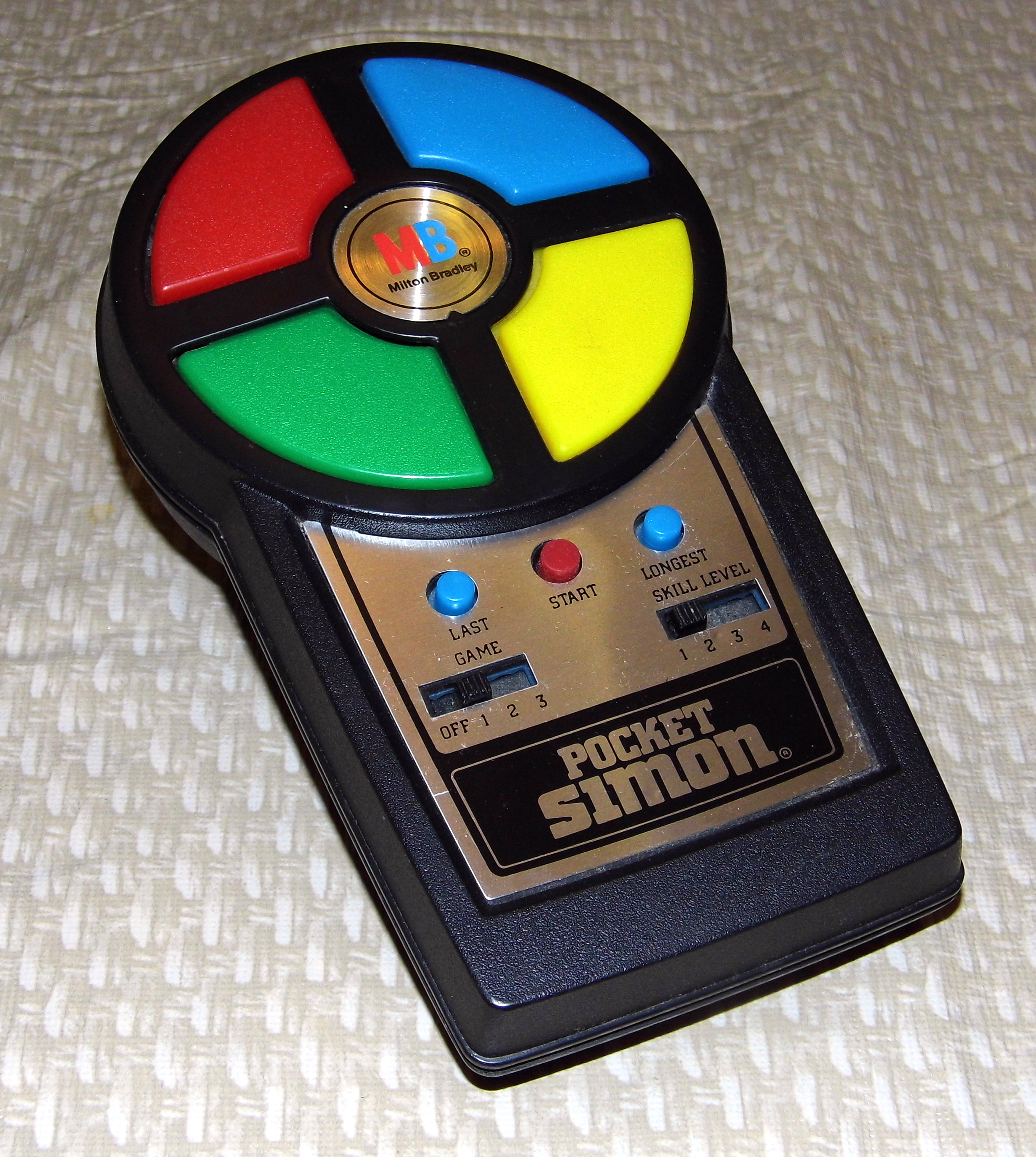 Vintage Pocket Simon Electronic Handheld Game by Milton Bradley, Copyright 1980, Made in the USA A good source of information on vintage handheld electronic games is the Electronic Handheld Game Museum .